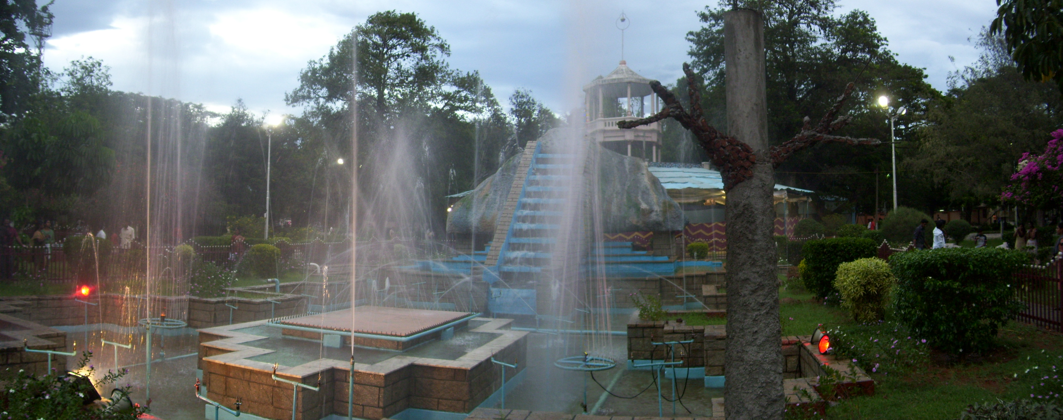 A water fountain in VOC Park